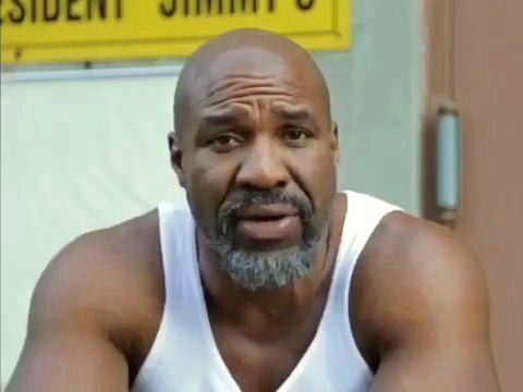 Shannon ("The Cannon") Briggs, a heavyweight boxer from the United States.